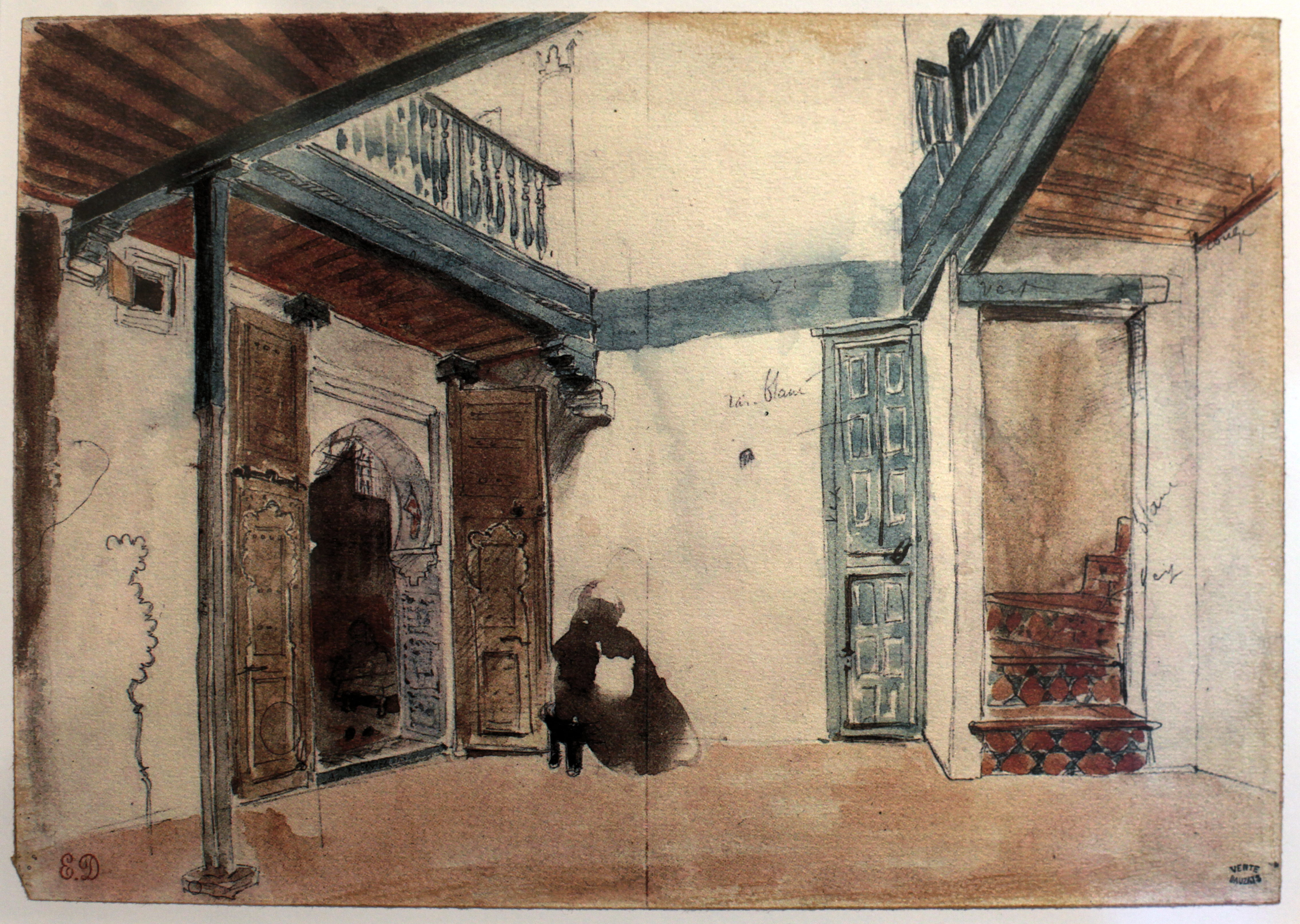 Sketchbook of Delacroix, notes from a journey to Morocco.